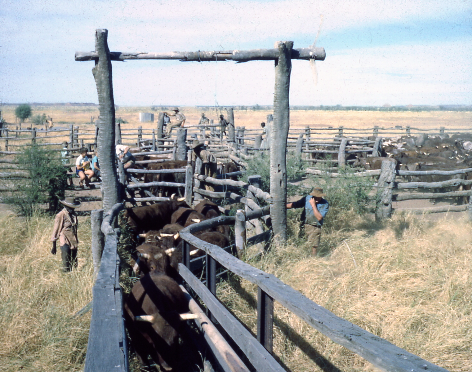 Loading cattle at Louisa Downs onto early road trains for shipping to Derby Meatworks in 1967